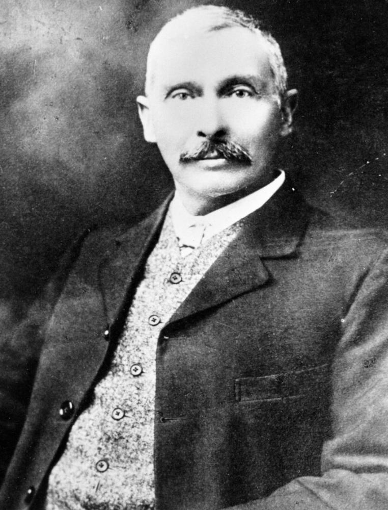 George Phillips, Sandgate, 1907 George Phillips was the author of the book Pioneer Railways for Queensland, published in Brisbane by Watson and Ferguson in 1892. (Description supplied with photograph).